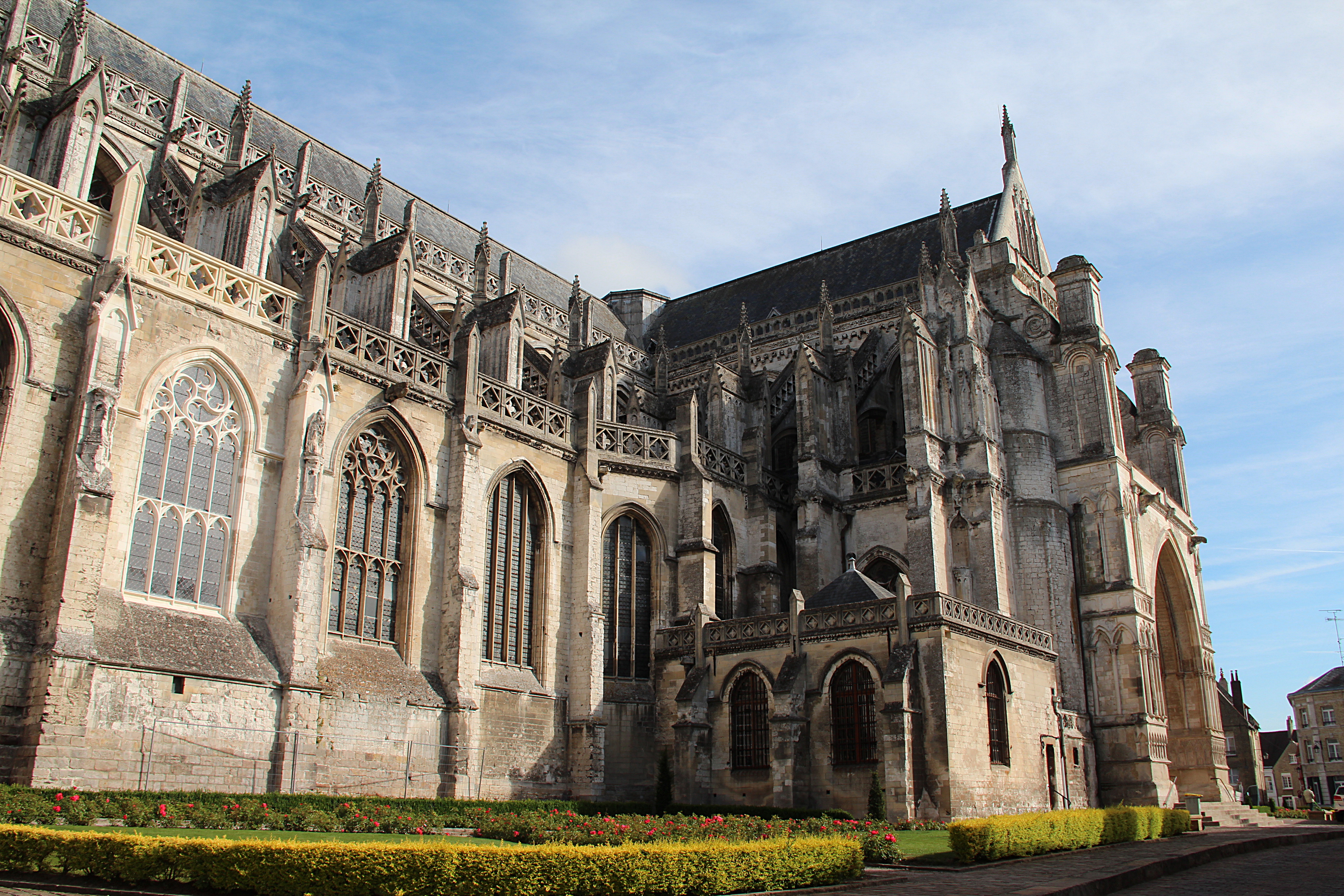 Saint-Omer (Pas-de-Calais - France), n(1263) and transept (1375-1379) of the Notre-Dame de Saint-Omer Cathedral.